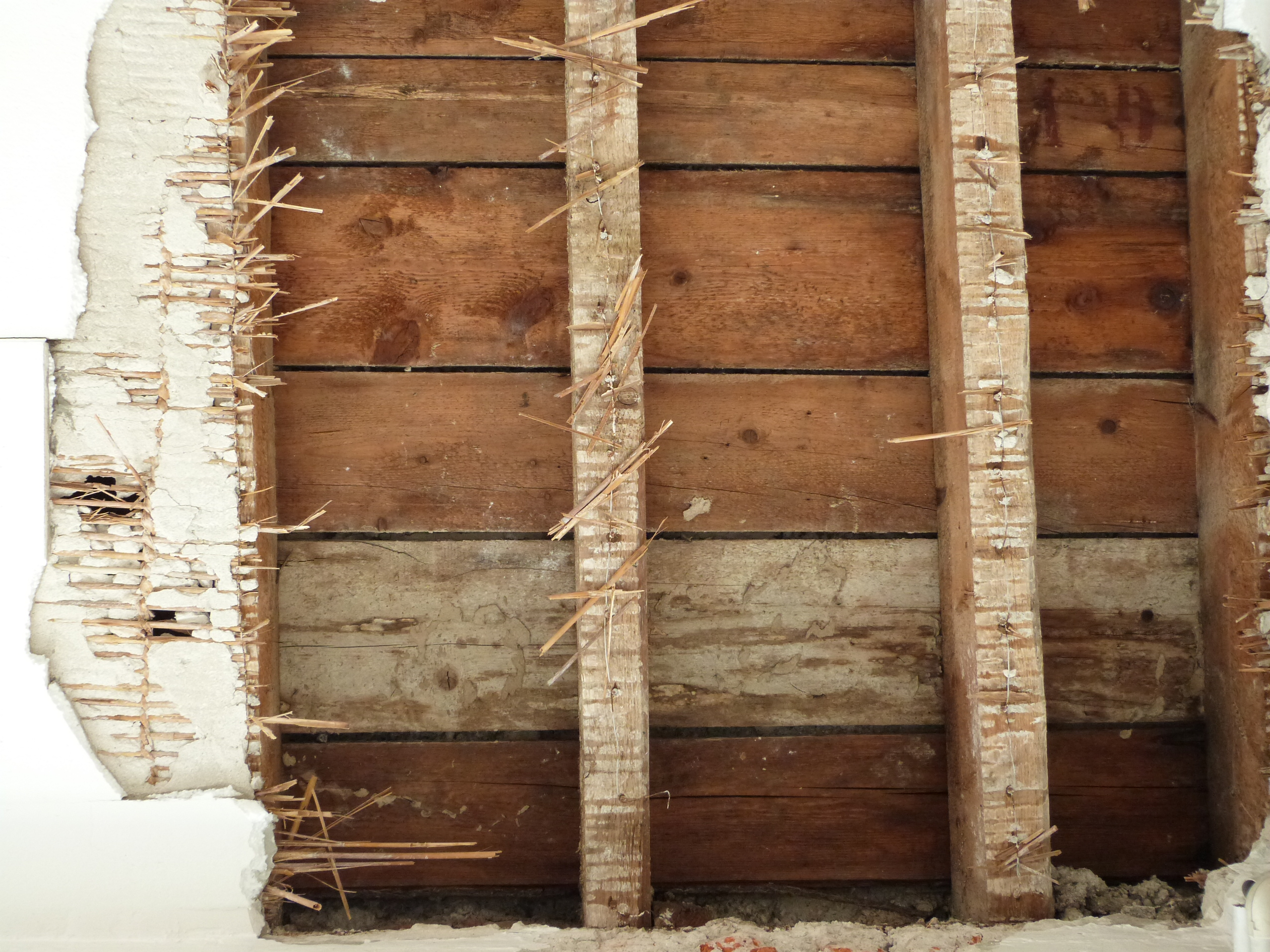 'l farès se ghe fodès la mé lèngua!